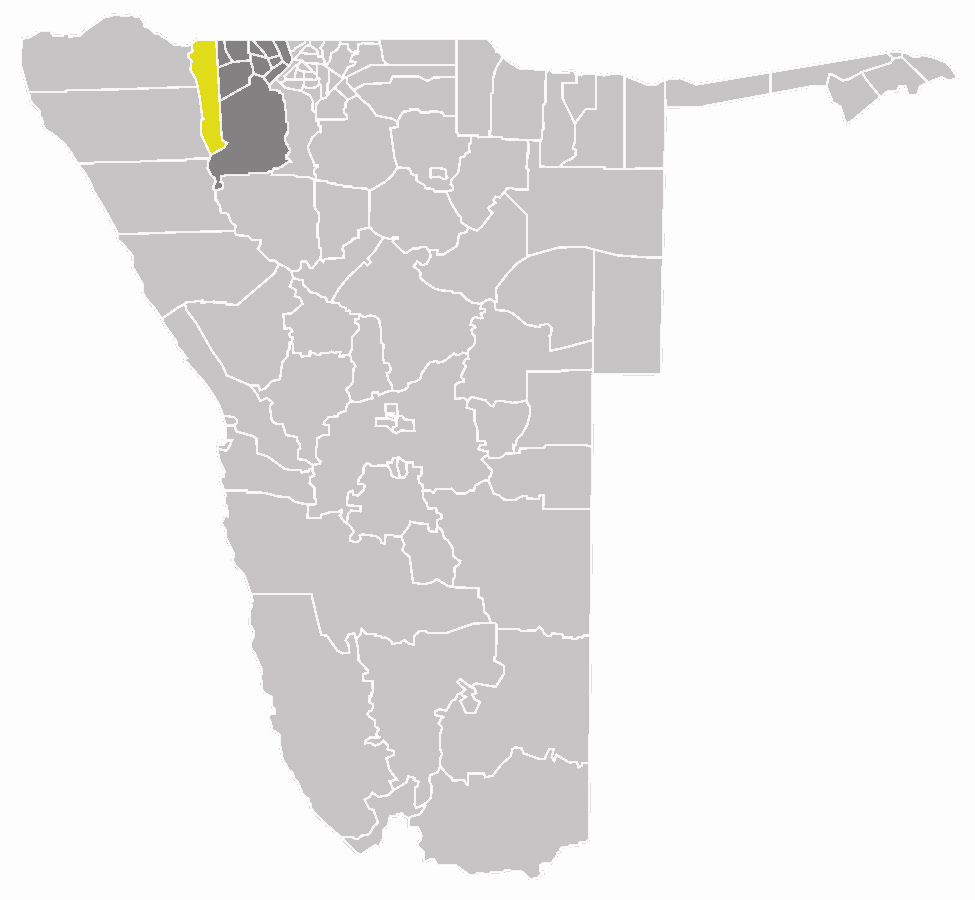 map of the Ruacana constituency within the Omusati region, Namibia